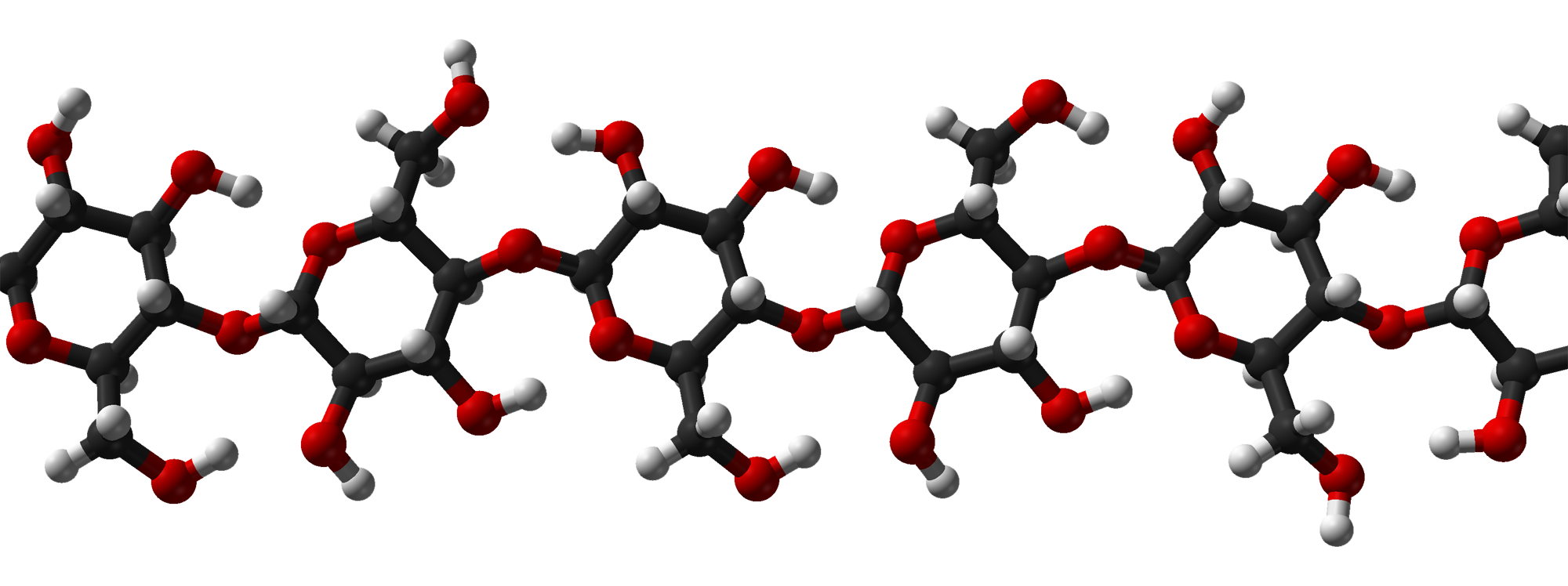 Ball-and-stick model of part of the crystal structure of cellulose Iβ. X-ray crystallographic data from J. Am. Chem. Soc. (2002) 124, 9074–9082. Model constructed in CrystalMaker 8.1. Image generated in Accelrys DS Visualizer.